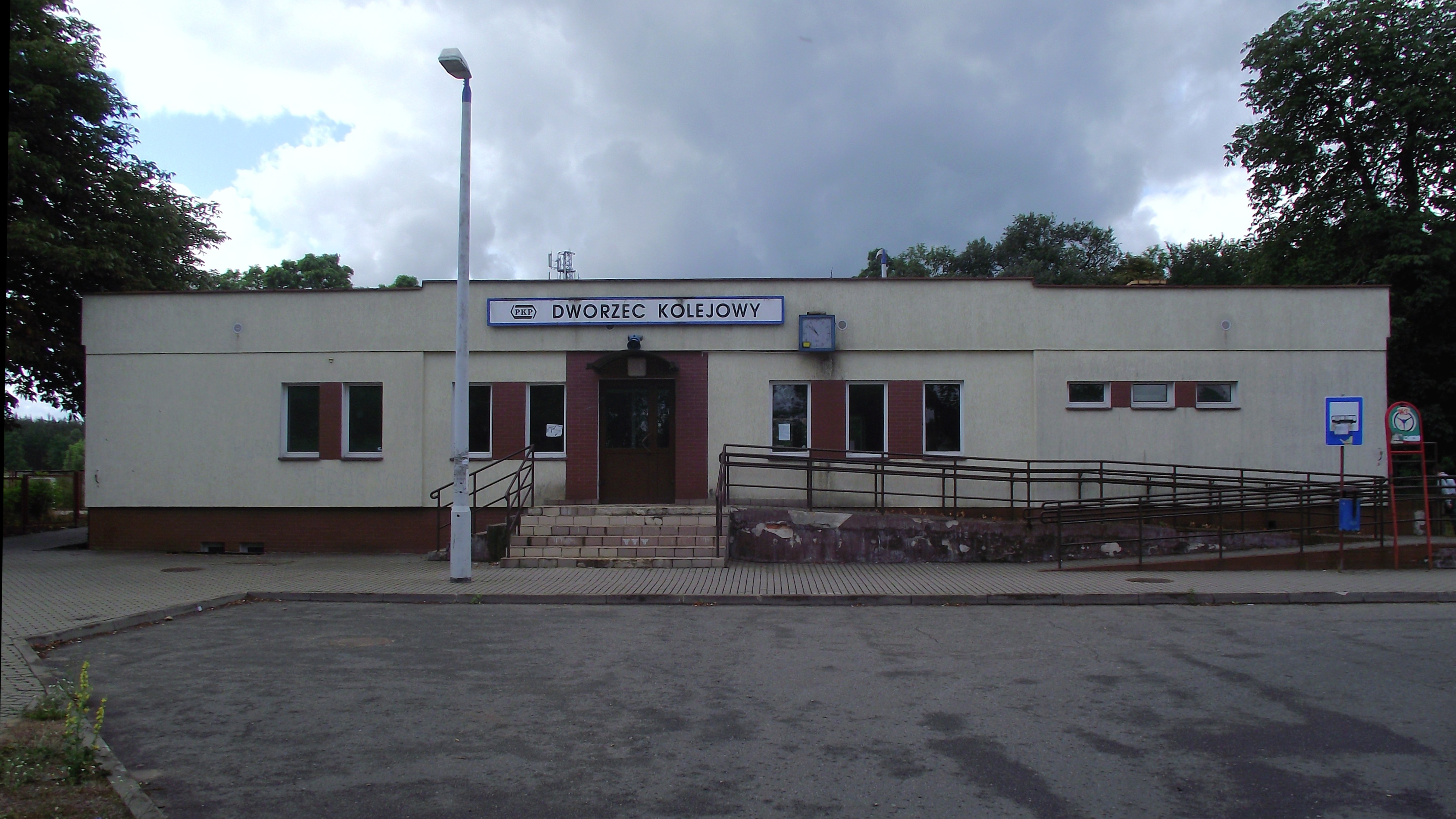 Train station in Torzym.